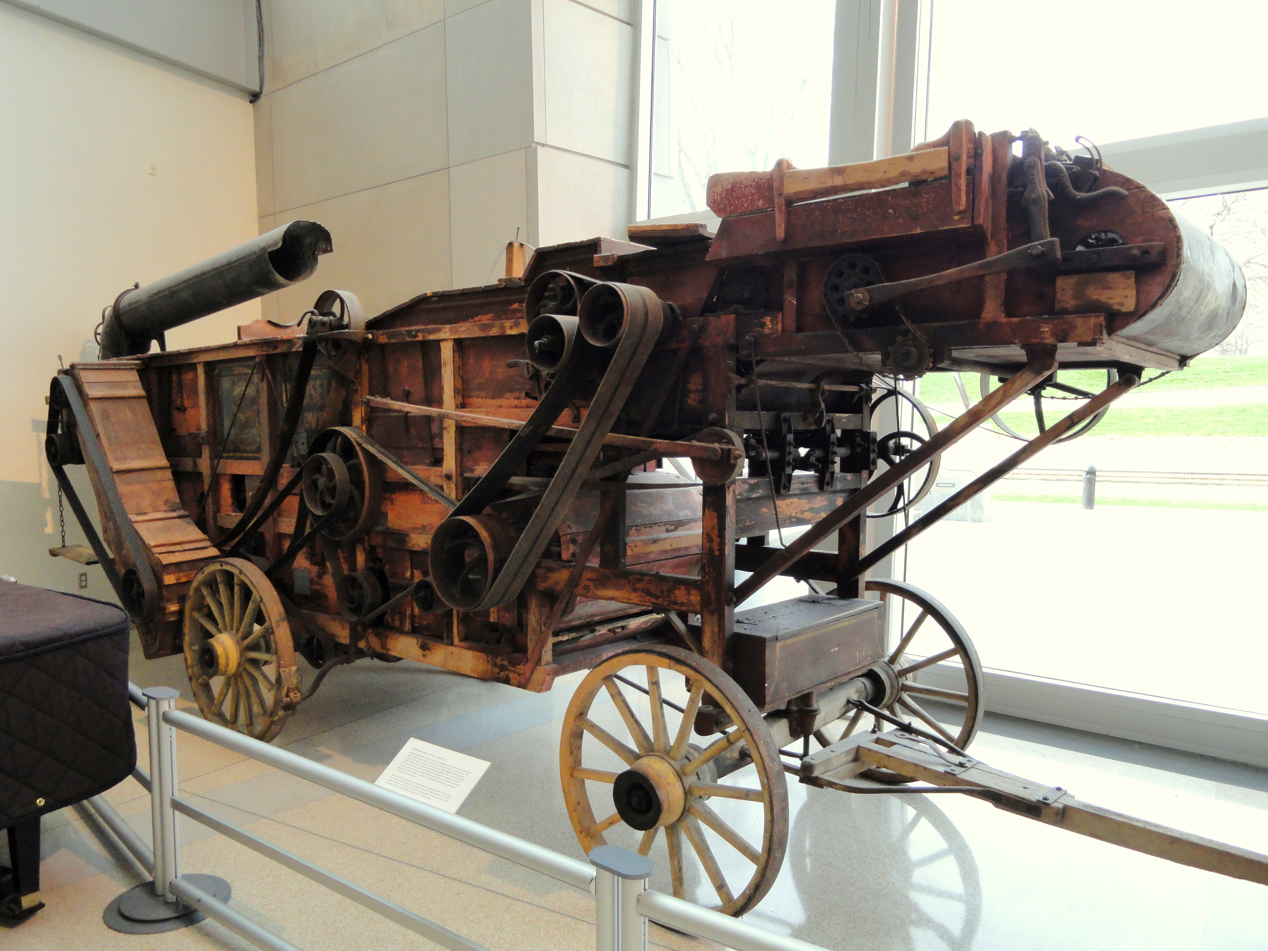 Birdsell clover huller (a special type of threshing machine, cf. [1]); South Bend, Indiana, 1918. Indiana State Museum, 650 West Washington Street, Indianapolis, Indiana, USA.